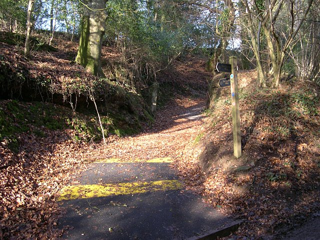 Signpost on The Saints Way. The Saints Way is a long distance path from Padstow to Fowey. It follows existing footpaths and minor roads.